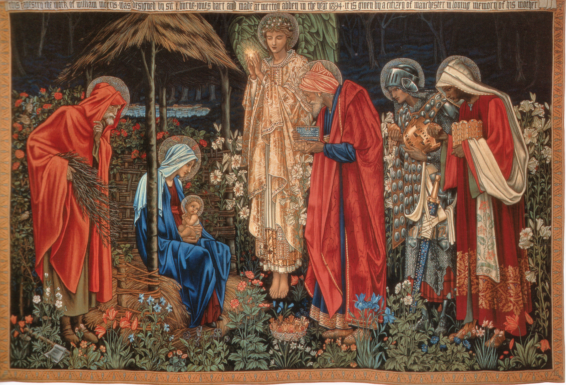 The Adoration of the Magi, tapestry, wool and silk on cotton warp, 101 1/8 x 151 1/4 inches (258 x 384 cm.), Manchester Metropolitan University